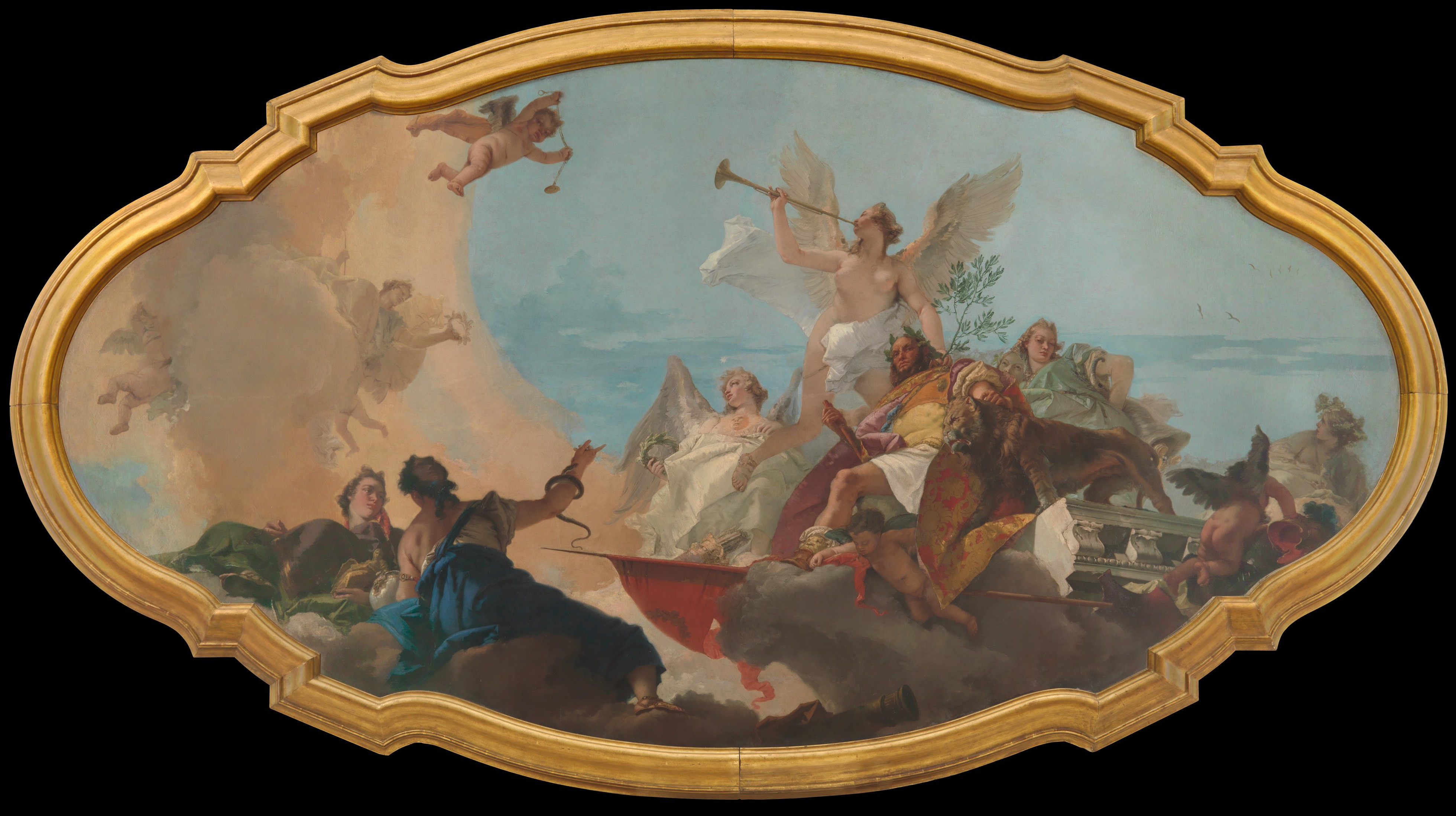 Painting, ceiling decoration; Paintings